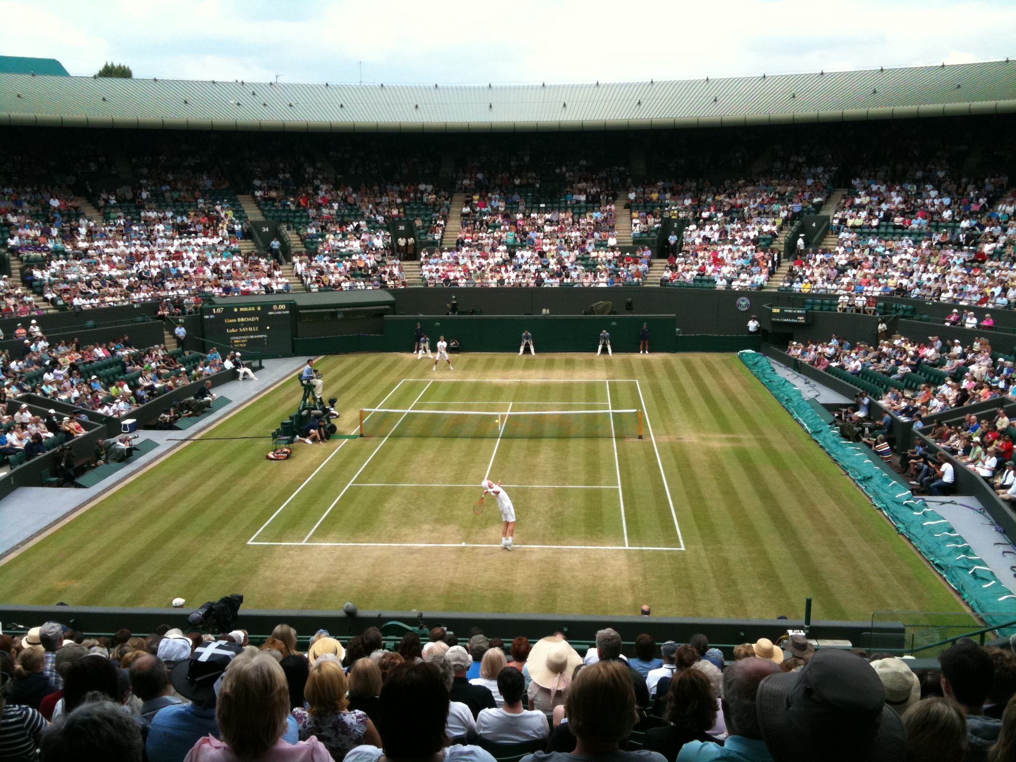 Wimbledon Boys Singles Final 2011 - No.1 Court - Luke Saville (AUS) serves first point versus Liam Broady (GBR)